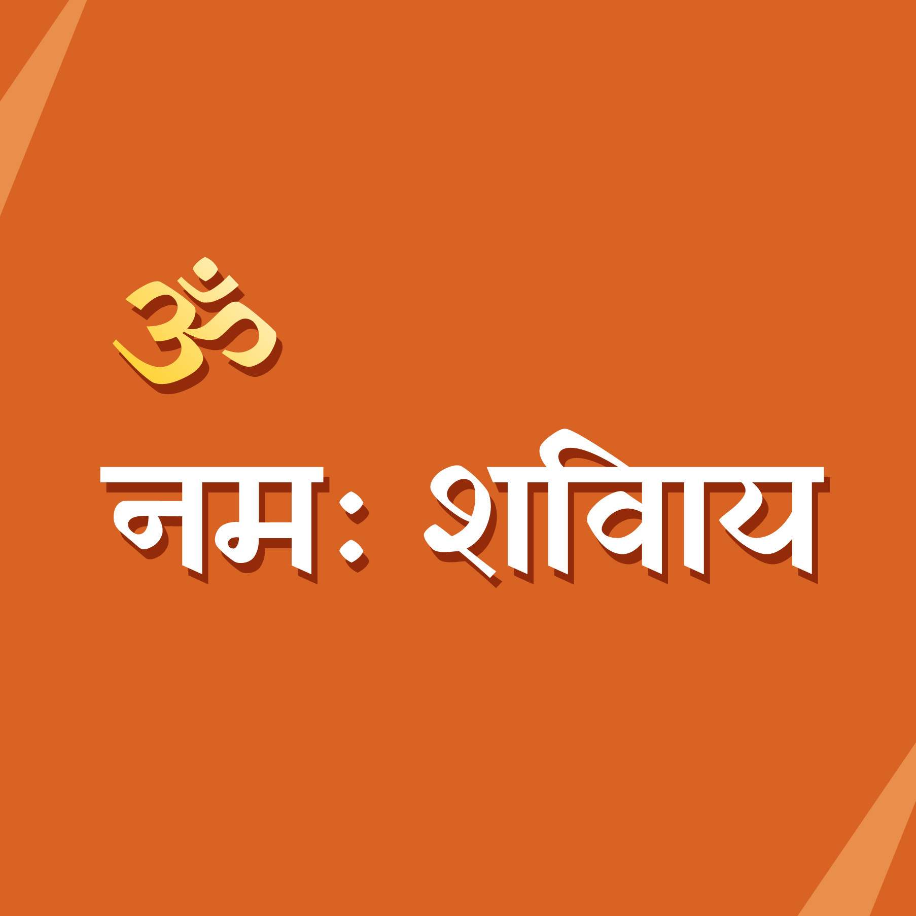 Om Namah Shivaya, a Hindu mantra, written in Devanagari script